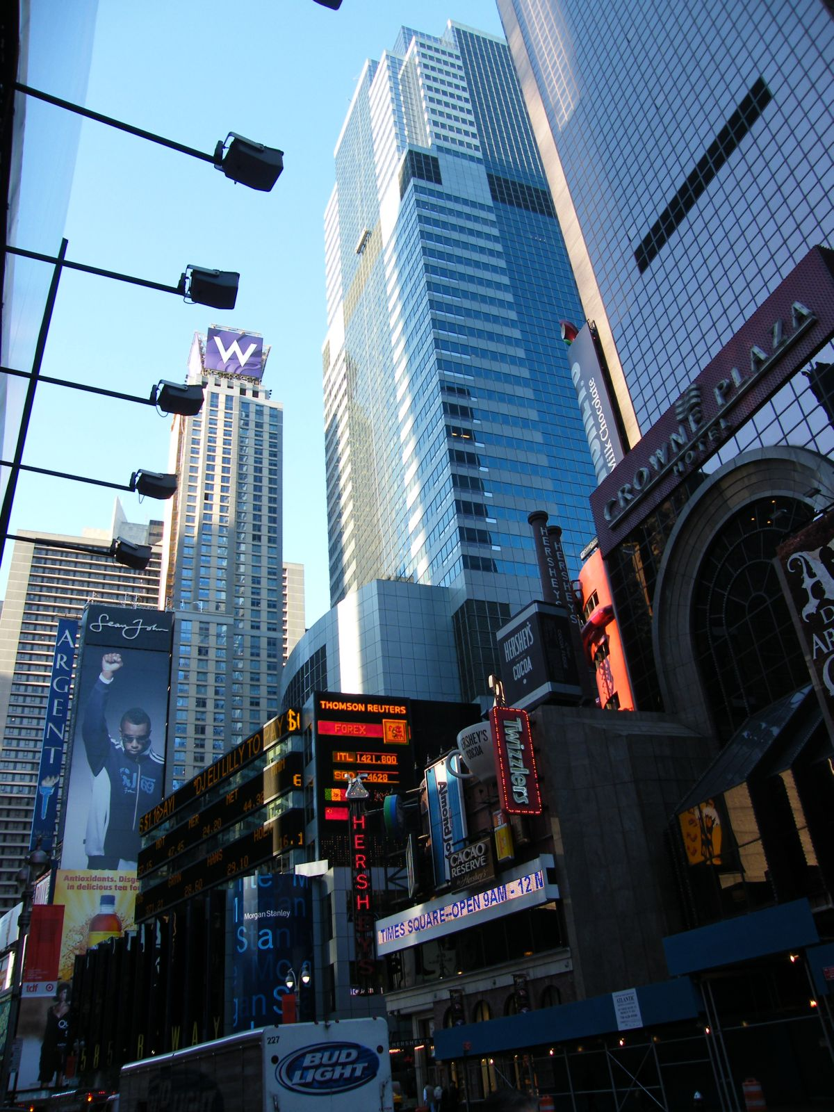 Morgan Stanley Building